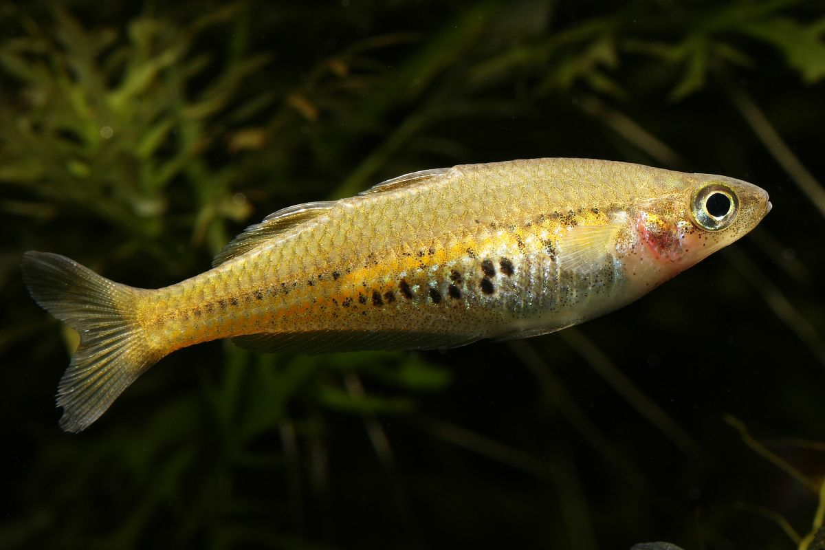 Ramu Rainbowfish (Glossolepis ramuensis) - female - in aquarium.